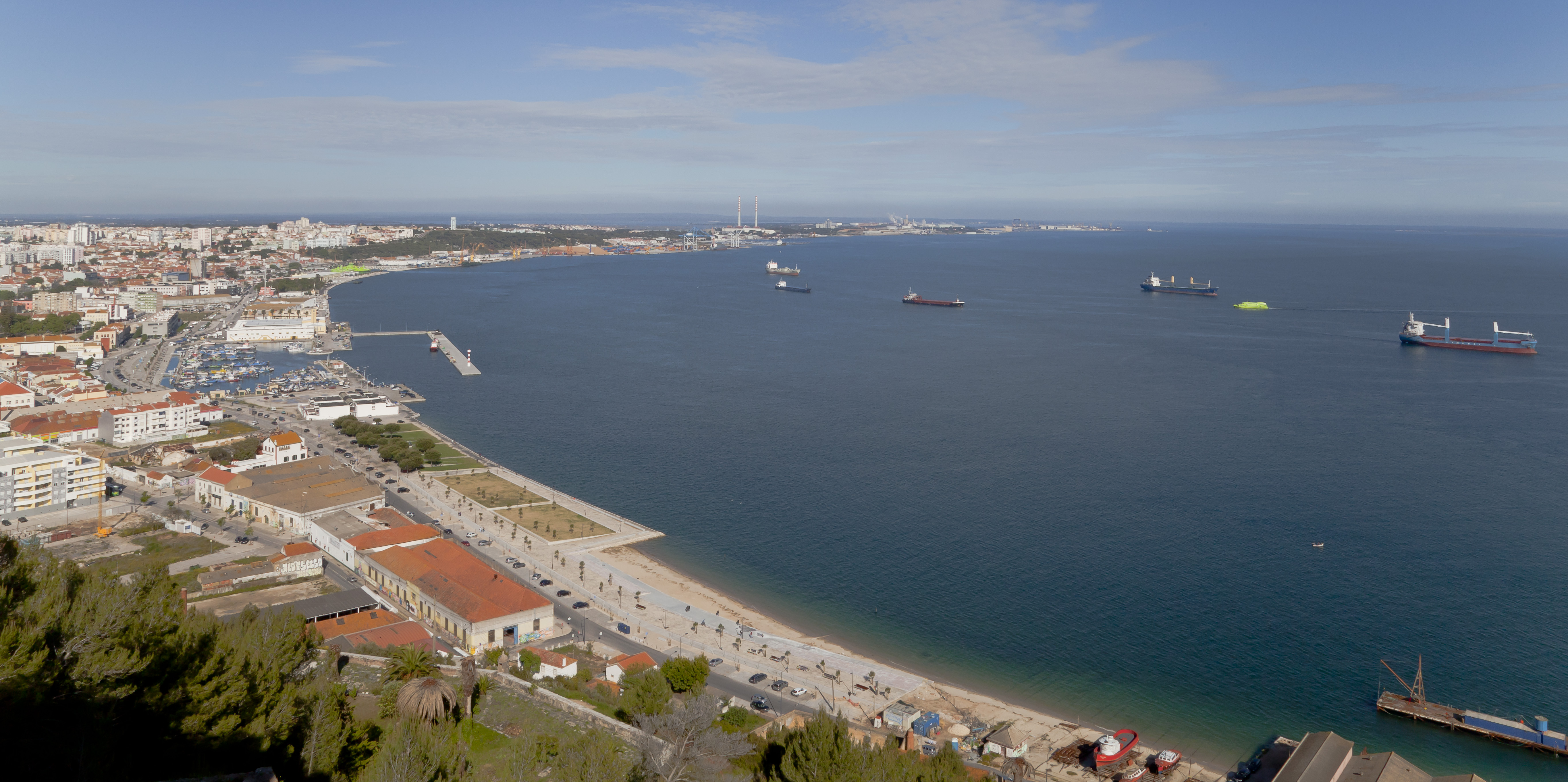 View of Setubal from Fort of Saint Philip, Setubal, Portugal